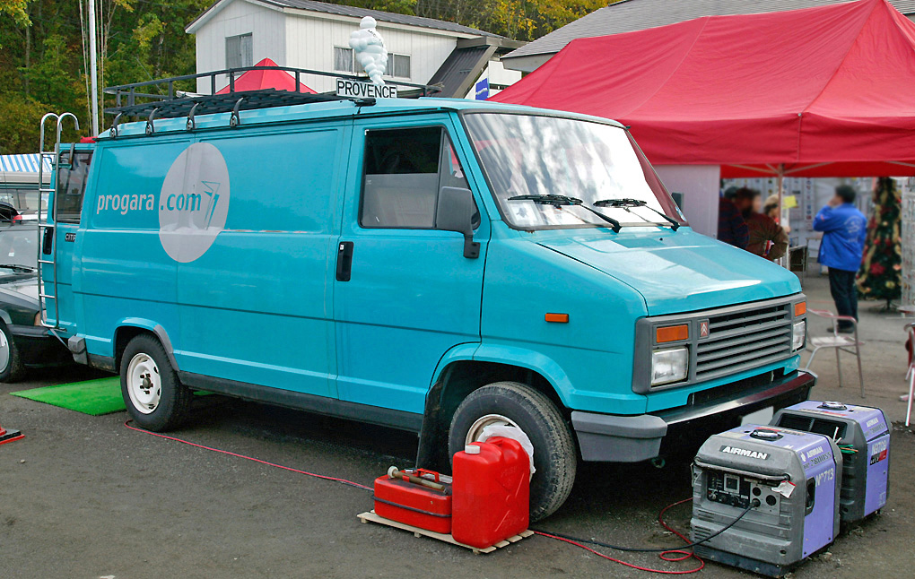 Citroën C25